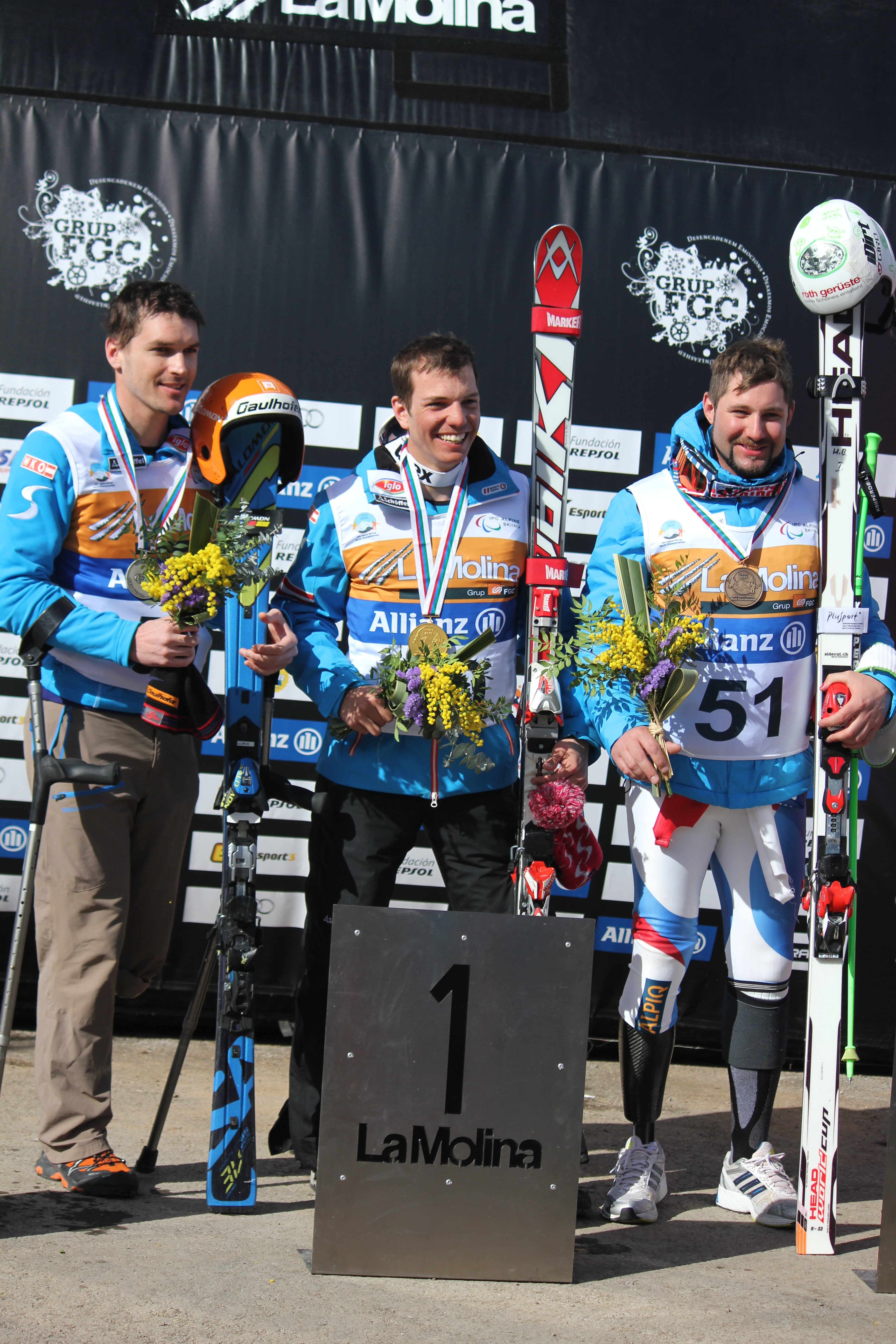 Podium Super G, Standing class. Markus Salcher (gold), Matthias Lanzinger (silver), Michael Bruegger (bronze). 2013 IPC Alpine World Championships award ceremonies. La Molina, Spain.